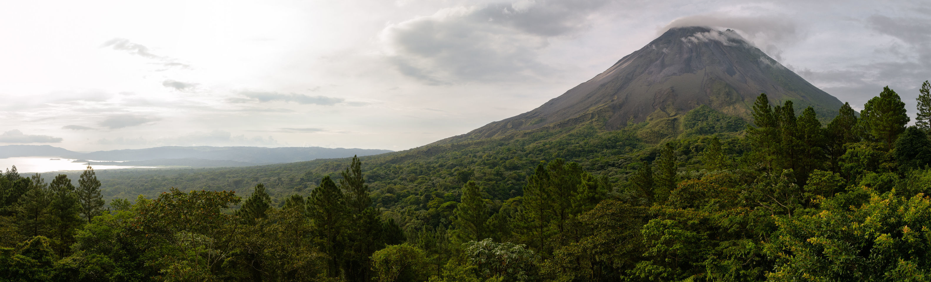 The Arenal Volcano viewed from the Arenal Observatory Lodge. Lake Arenal is visible on the left.